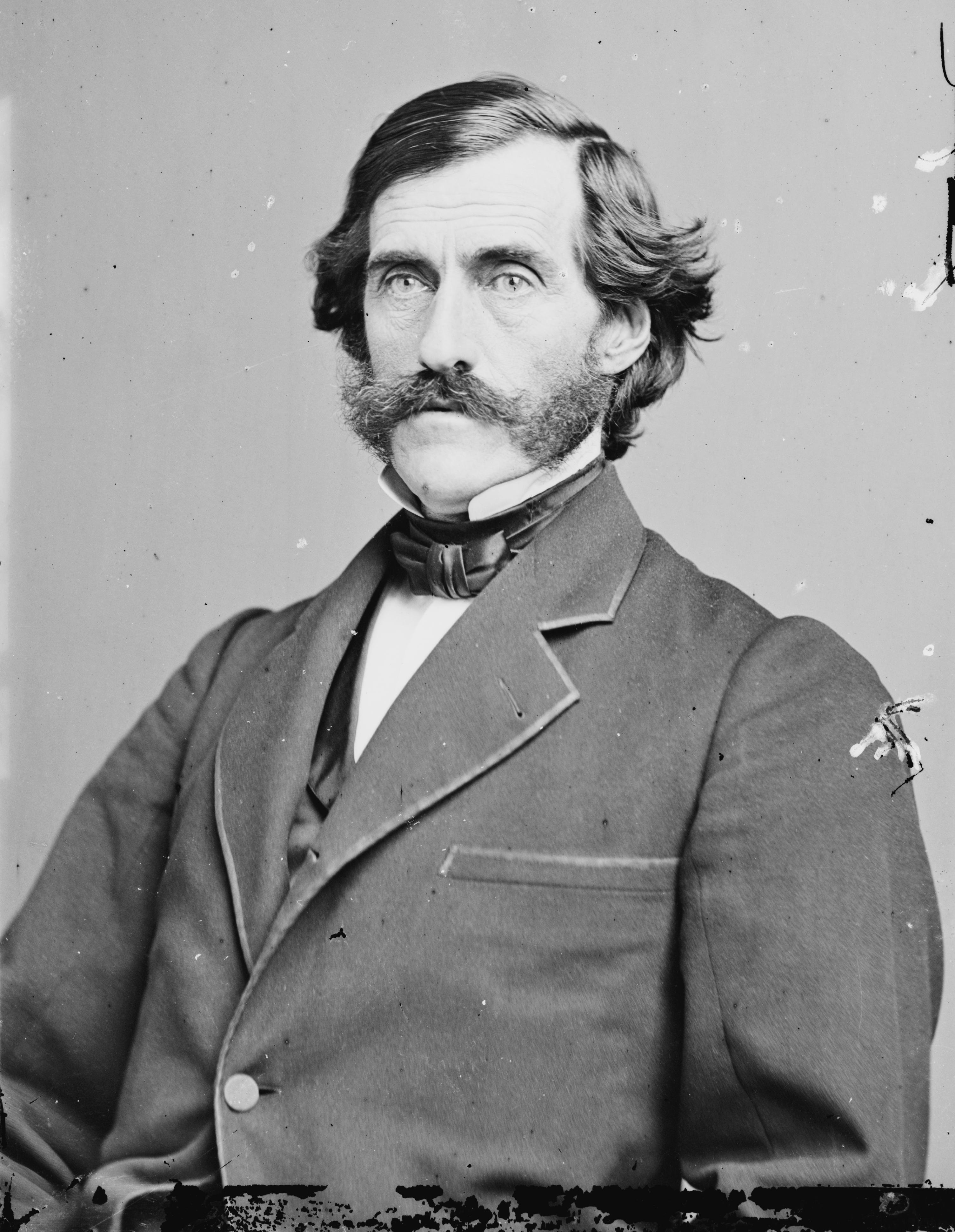 Daniel Clark (1809-1891). Library of Congress description: "Hon. Daniel Clark of N.H."